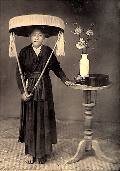 1800's photograph of a Northern Vietnamese woman dressed in "Ao Tu Than" costume, along with the ba-tam hat.